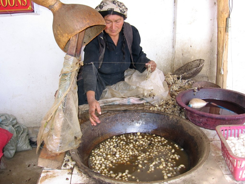 Khotan (Hotan / Hetian) is an oasis city in the Xinjiang Uyghur Autonomous Region of the People's Republic of China. Atlas silk factory.